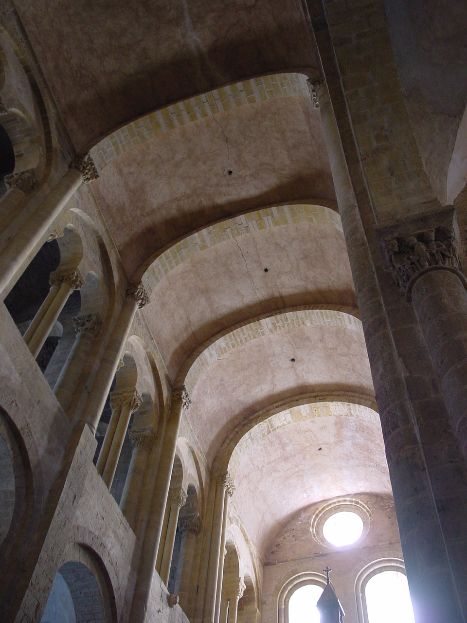 Barrel vault of the nave the abbey church in Conques